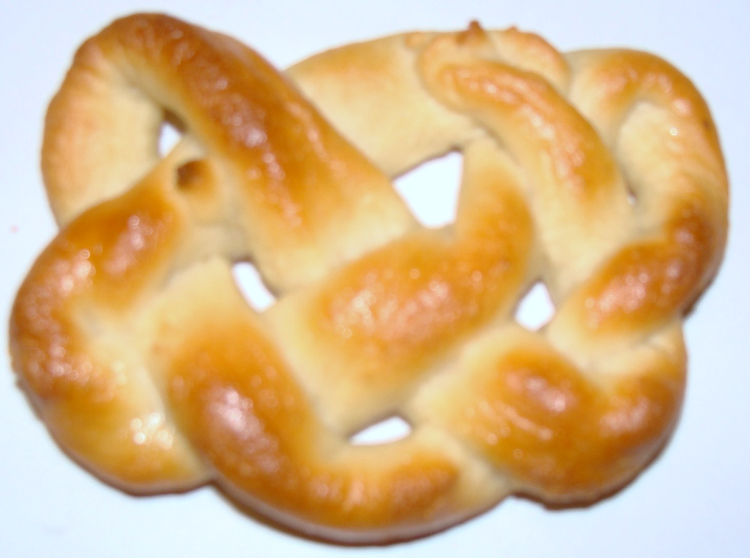 An edible 7_4 knot. Also called the Celtic knot